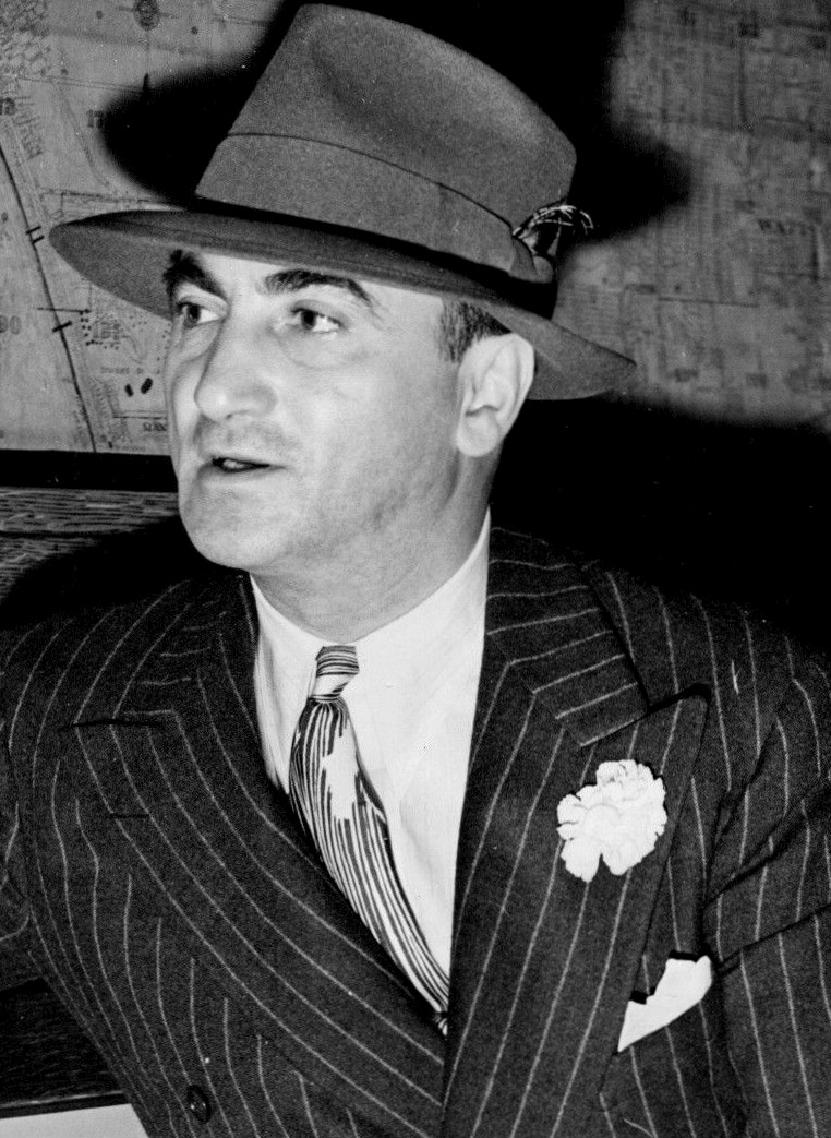 Photo of Martin "Moe" Snyder in 1938 as he was charged with the shooting of Myrl Alderman. Snyder was singer Ruth Etting's ex-husband. Snyder became angry that his ex-wife was seeing Alderman. While Snyder was on trial for the shooting, Alderman and Etting were married. Note the uploaded photo is larger and of better quality than the newsprint photo. Renewal searches were done in both publications and artwork for the years 1965 and 1966. There were no listings for The Hutchinson News or Associated Press; there's no evidence of continuing copyright for the image.